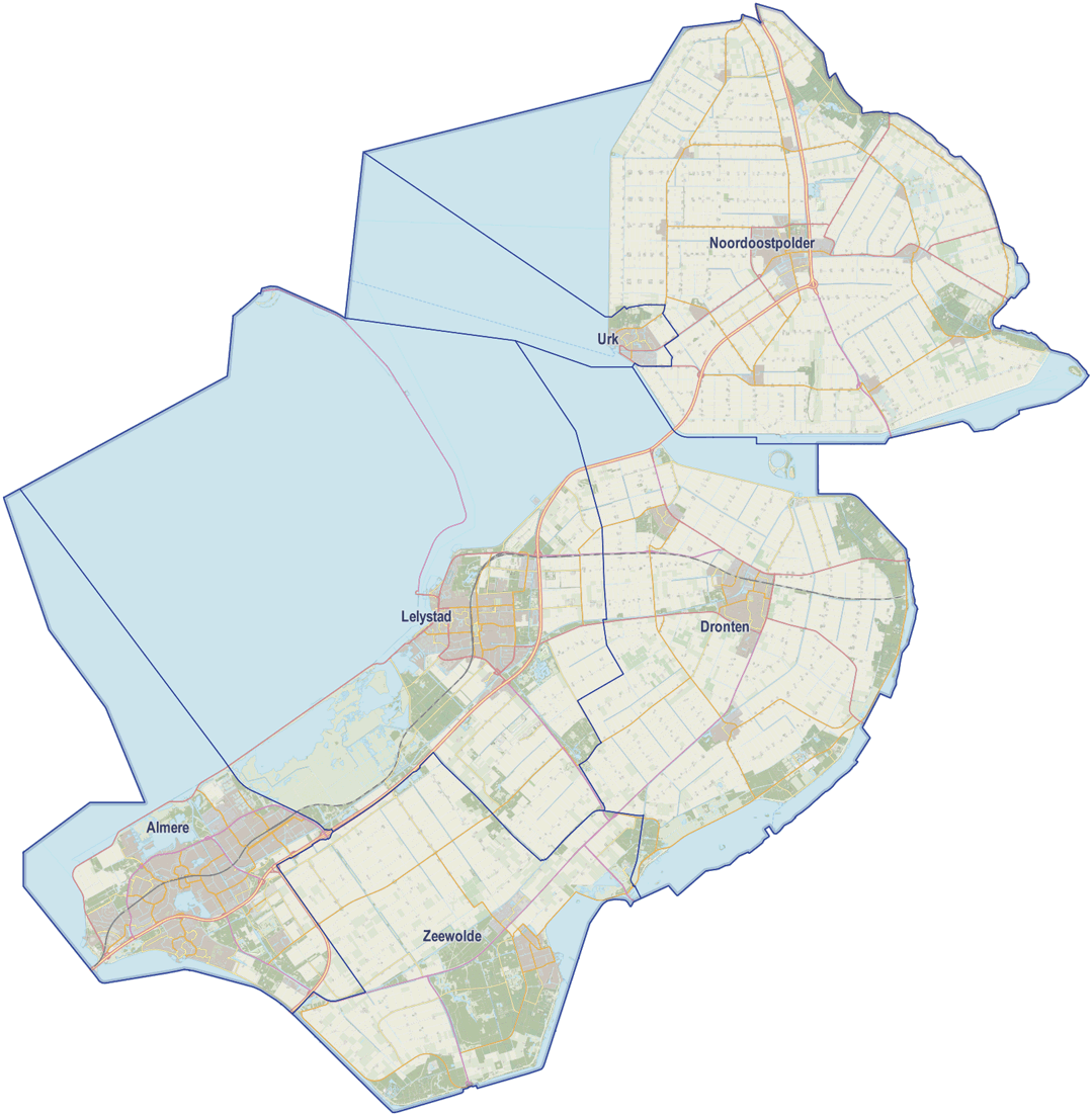 Outline overview map of the province, with municipal borders (2016) and an impression of the terrain.